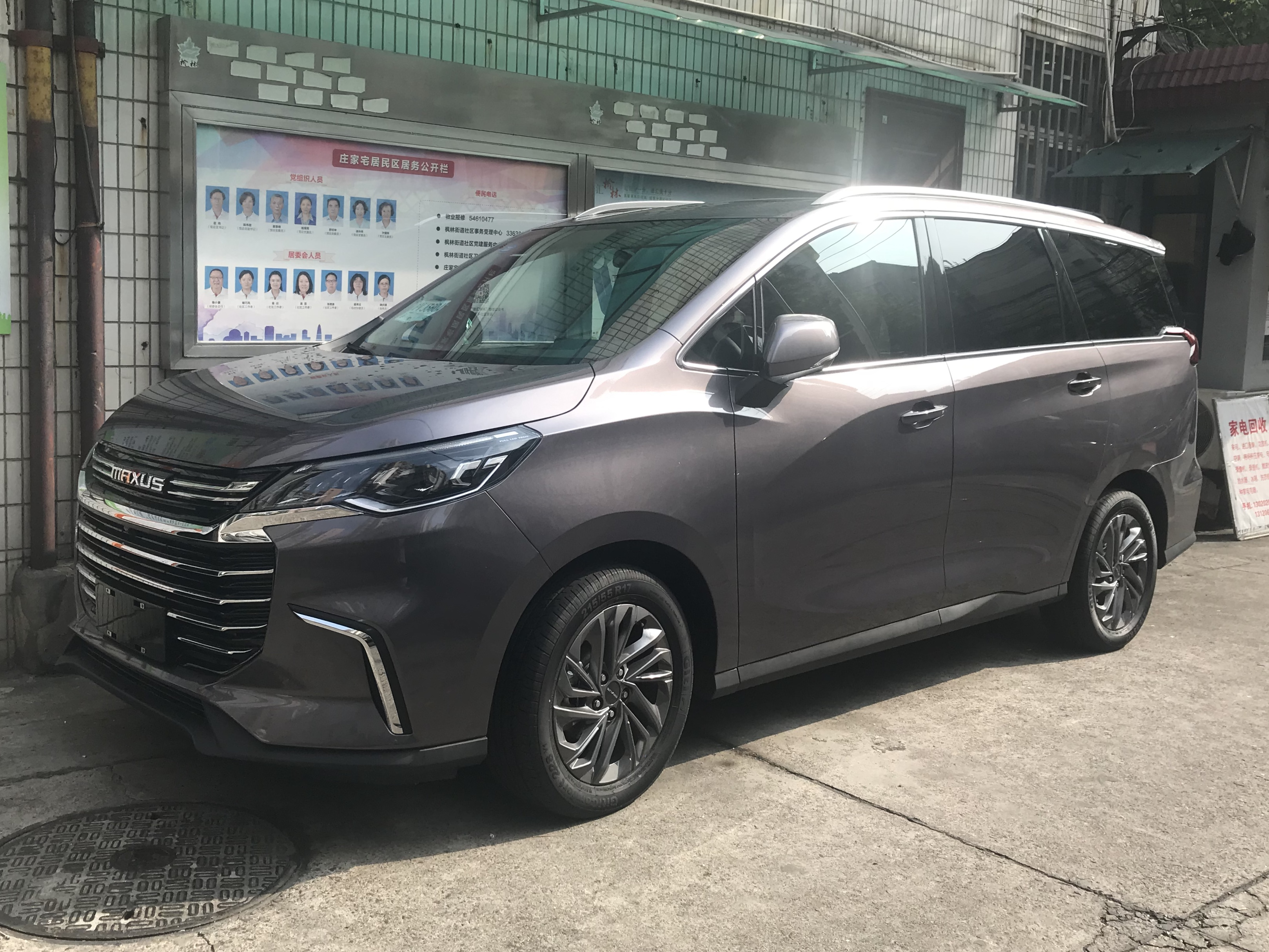 Maxus G50 front